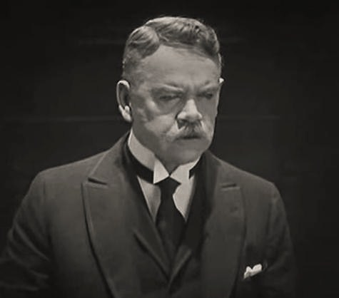 Hardee Kirkland in The Ace of Hearts - cropped screenshot